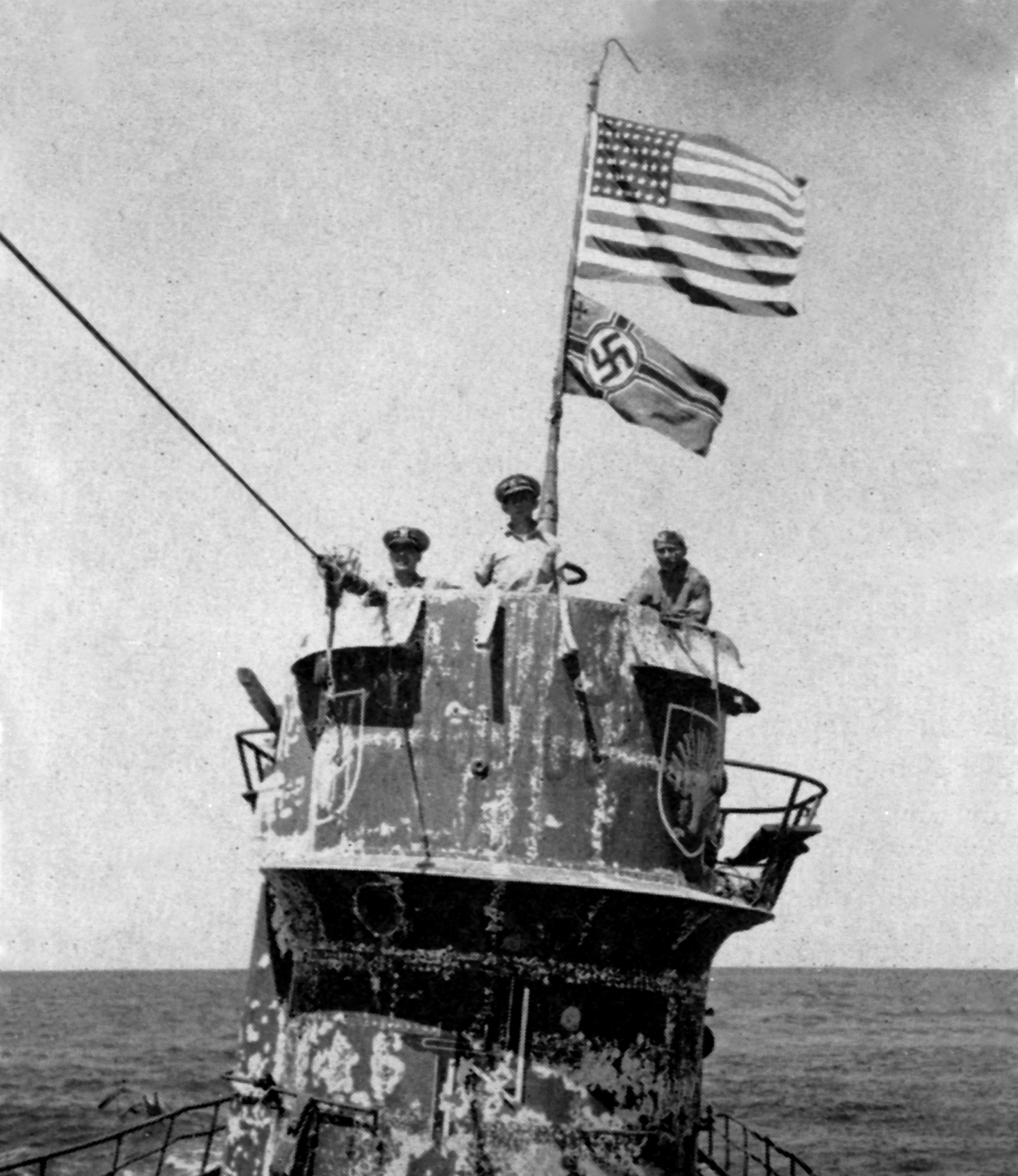 U.S. naval officers shown on the conning tower of the captured German submarine U-505 on 4 June 1944. The officers are, from right to left: Commander Earl Trosino, USNR; Captain Daniel V. Gallery, Jr., USN, Commanding Officer, USS Guadalcanal (CVE-60); and Lieutenant Junior Grade Albert L. David, USN, who was posthumously awarded the Medal of Honor for leading the boarding party that captured the submarine and carried out initial salvage operations. Note the United States flag flying above the German Navy ensign. U-505 was the first enemy warship captured on the high seas by the U.S. Navy since 1815.